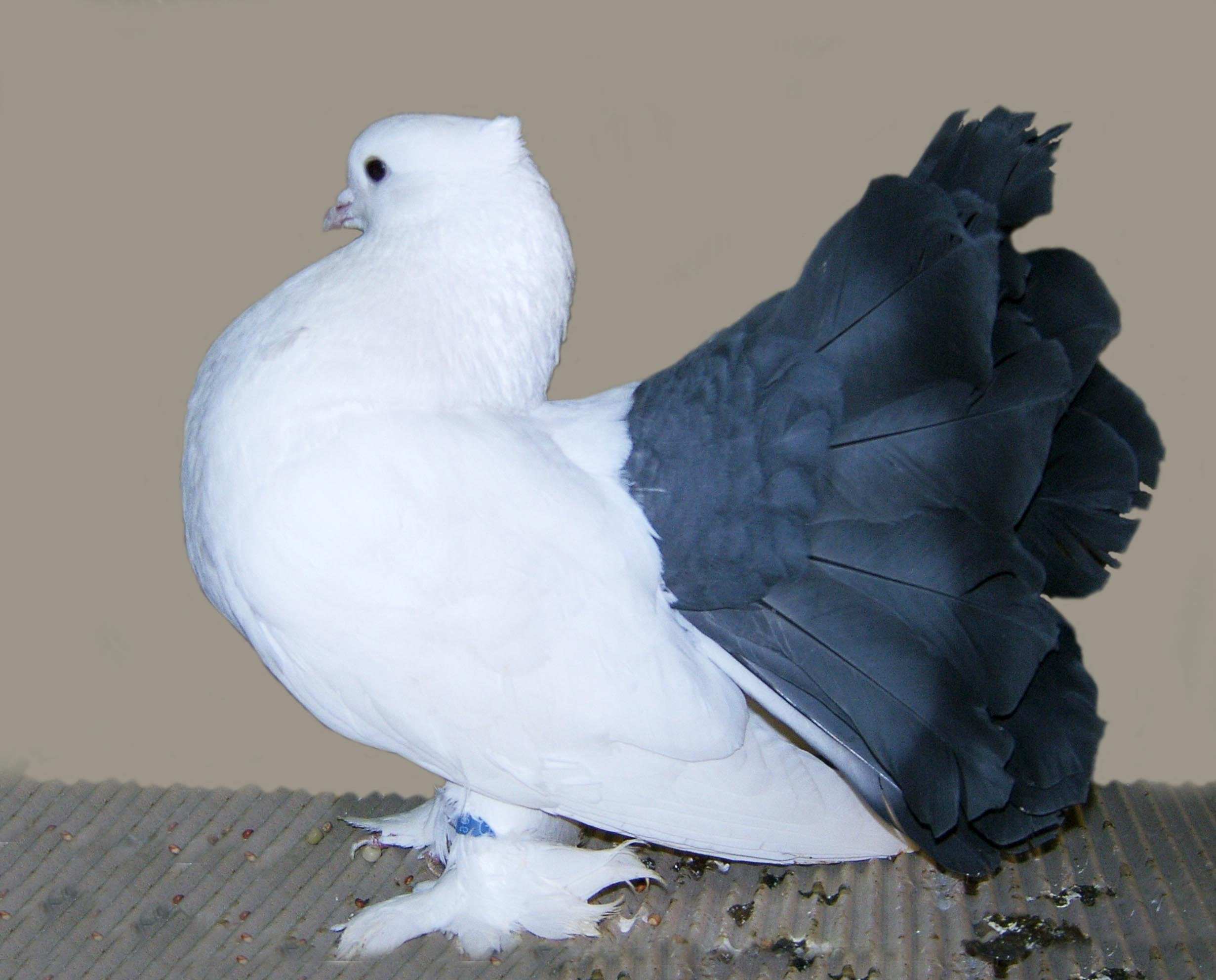 Indian Fantail (Blue-tailed White)